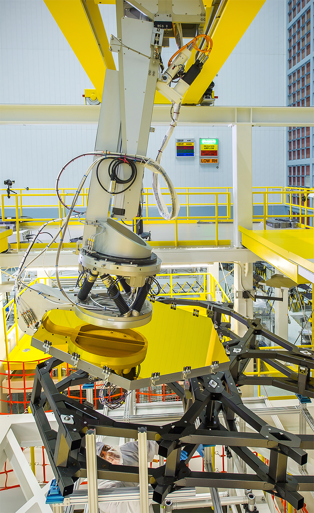 Inside a massive clean room at NASA's Goddard Space Flight Center in Greenbelt, Maryland the James Webb Space Telescope team is steadily installing the largest space telescope mirror ever. Unlike other space telescope mirrors, this one must be pieced together from segments using a high-precision robotic arm. Read more: Credit: NASA/Goddard/Chris Gunn NASA image use policy. NASA Goddard Space Flight Center enables NASA’s mission through four scientific endeavors: Earth Science, Heliophysics, Solar System Exploration, and Astrophysics. Goddard plays a leading role in NASA’s accomplishments by contributing compelling scientific knowledge to advance the Agency’s mission. Follow us on Twitter Like us on Facebook Find us on Instagram